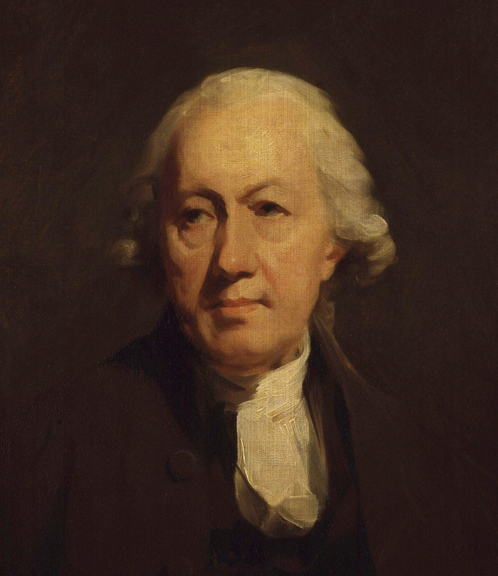 John Home, by Sir Henry Raeburn (died 1823). All images in this batch have been confirmed as author died before 1939 according to the official death date listed by the NPG.